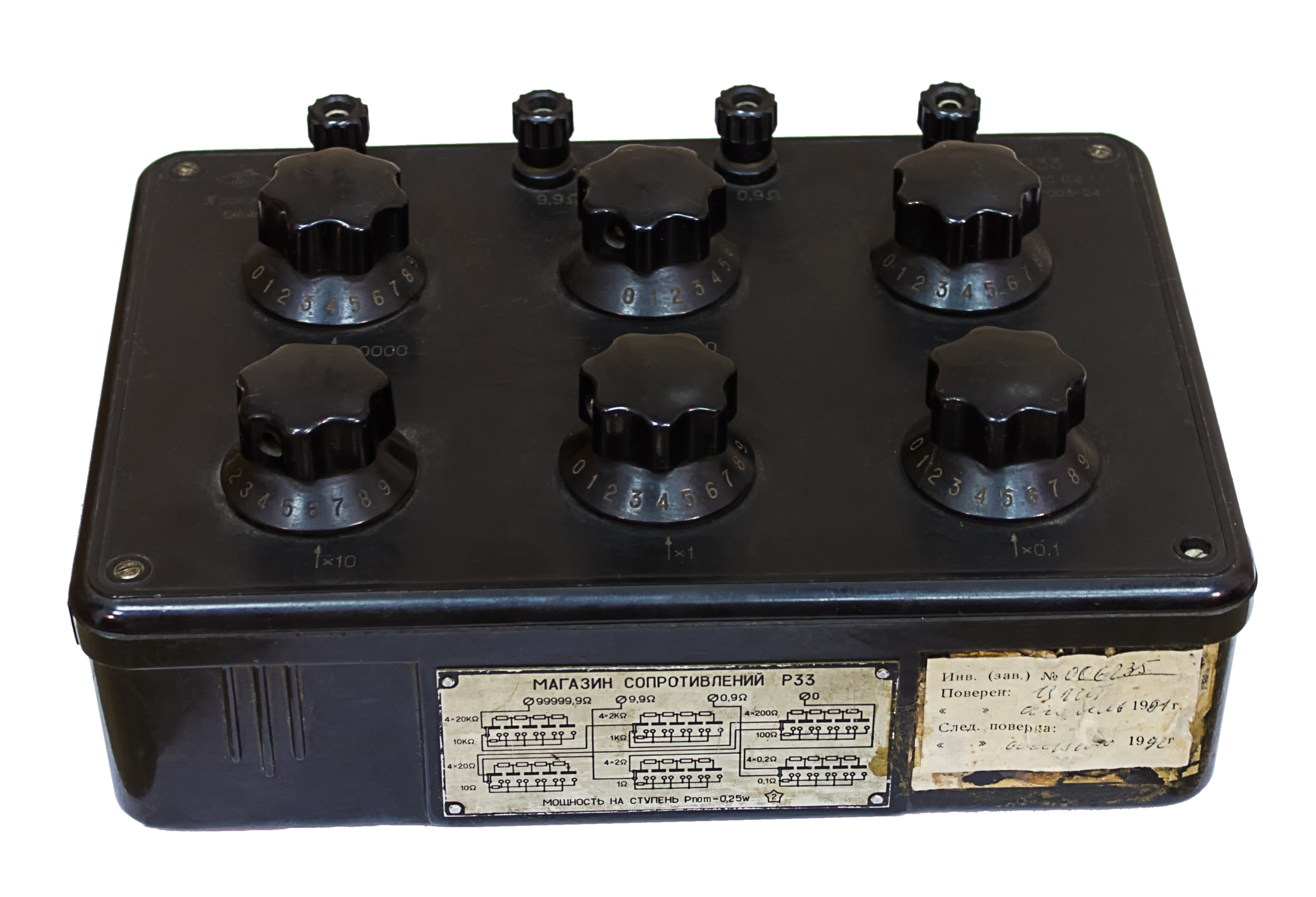 Direct current resistance box. Type R33 manufacturer : ZIP, Krasnodar, USSR, year of produce - 1964.